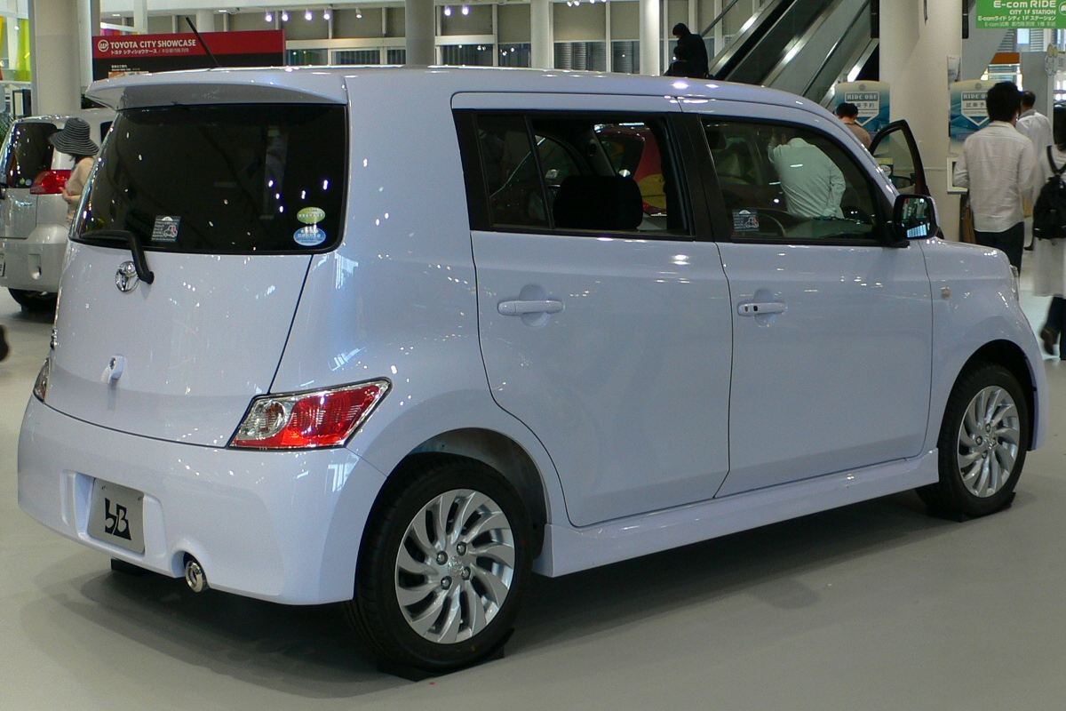 Toyota_bBQ version (2005 - )photographed in MEGAWEB